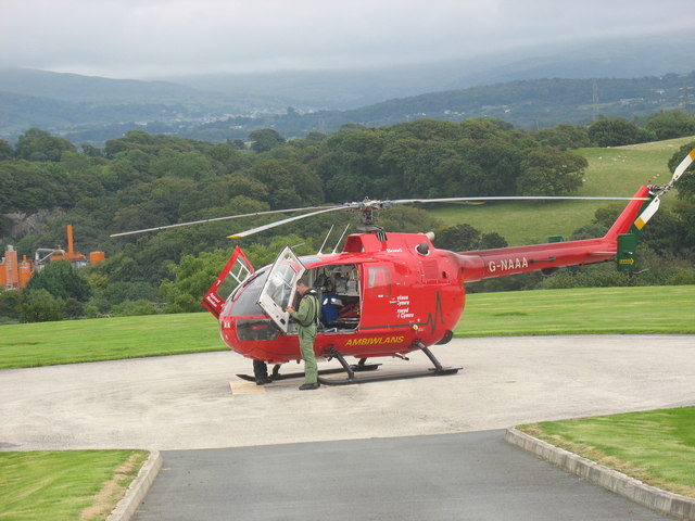 Ambiwlans Awyr Cymru/Wales Air Ambulance at Ysbyty Gwynedd